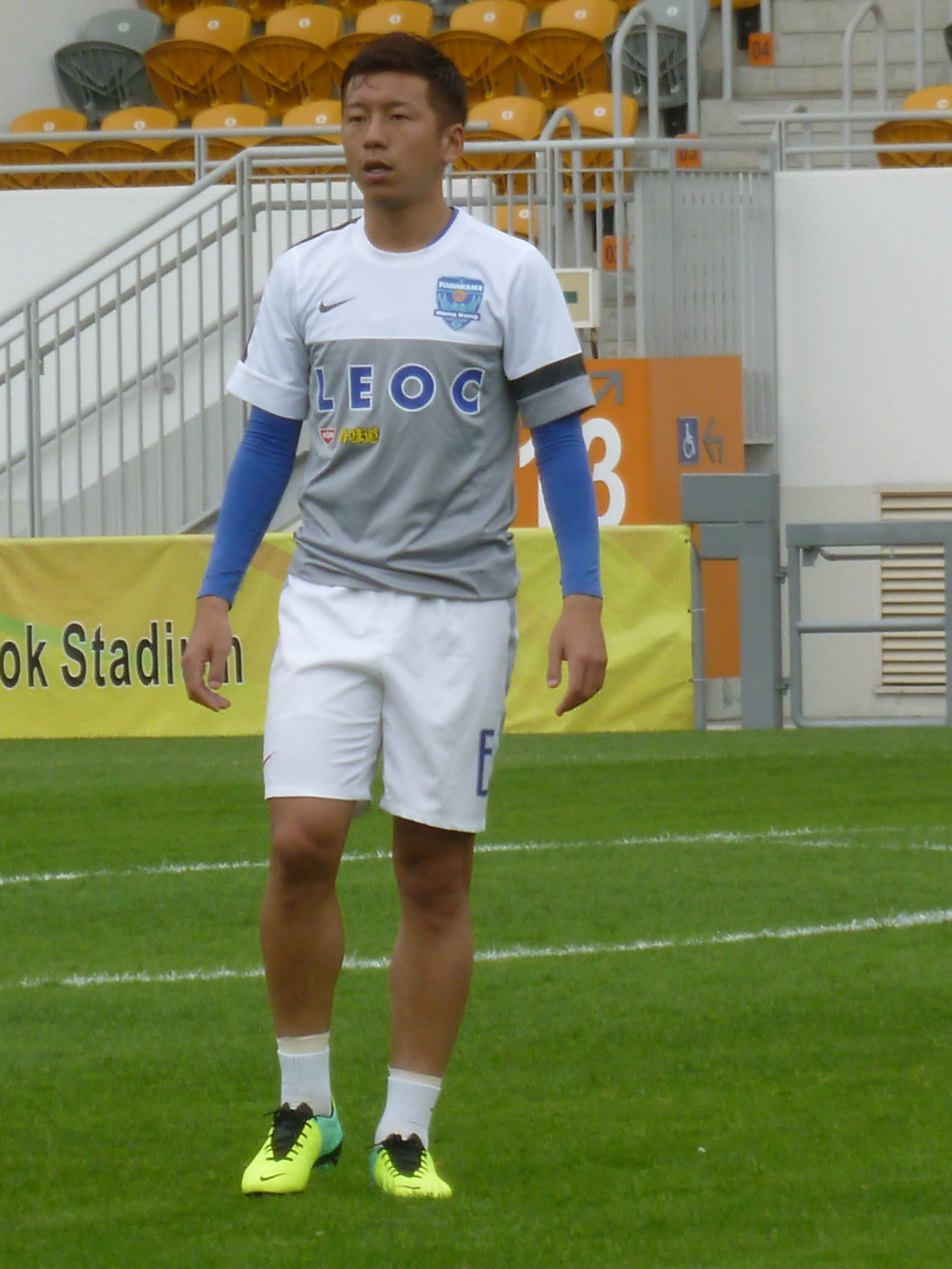 Masaaki Ideguchi (01 Mar 2014, Hong Kong FA Cup, Eastern vs Yokohama FC (HK), Mong Kok Stadium) 中文（香港）: 井手口正昭 (01 Mar 2014, 香港足總盃, 東方 vs 橫濱FC(香港), 旺角大球場)